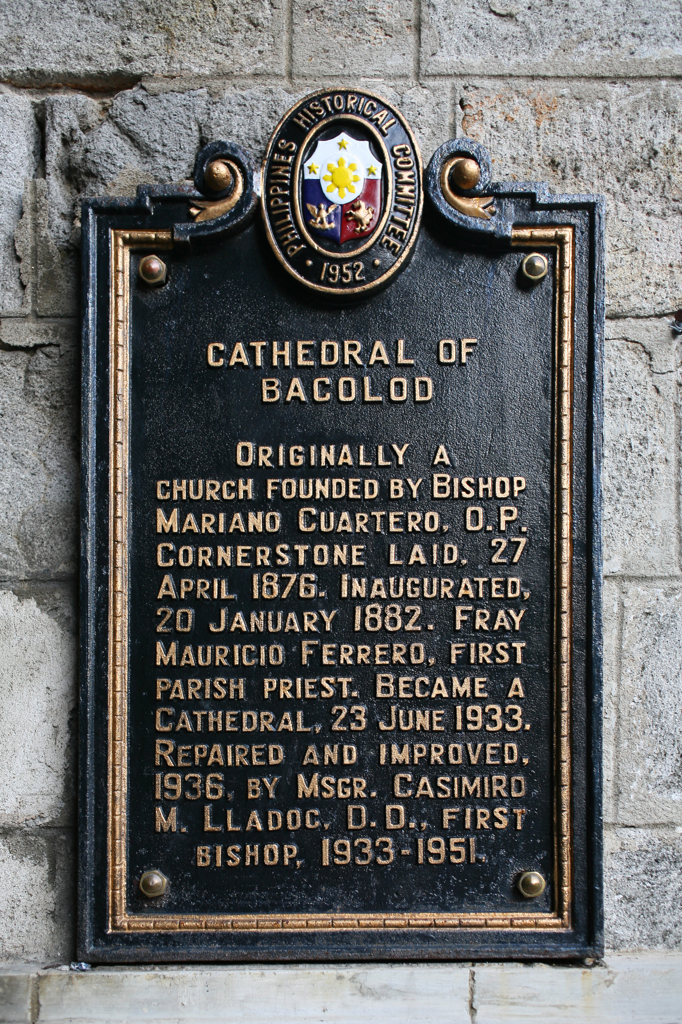 Plaque on the Cathedral of Bacolod, Negros Occidental, Philippines. Brief history of the Cathedral